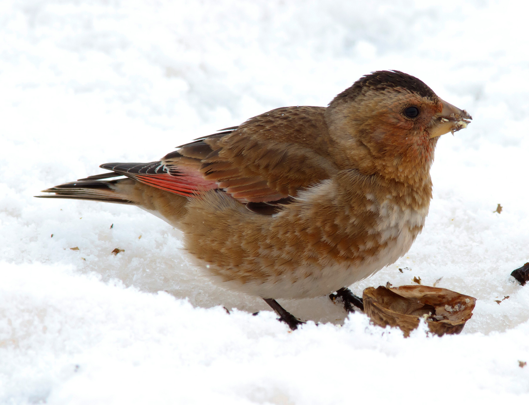 African crimson-winged finch (Rhodopechys alienus) at Oukaineden, Morocco